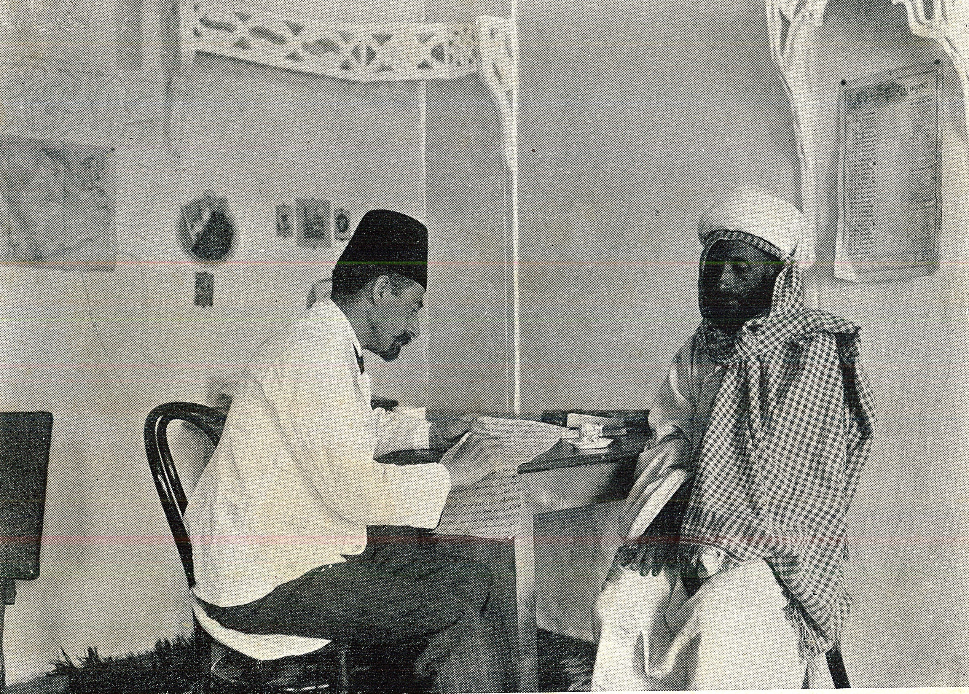 German explorer, Hermann Burchardt, in Yemen